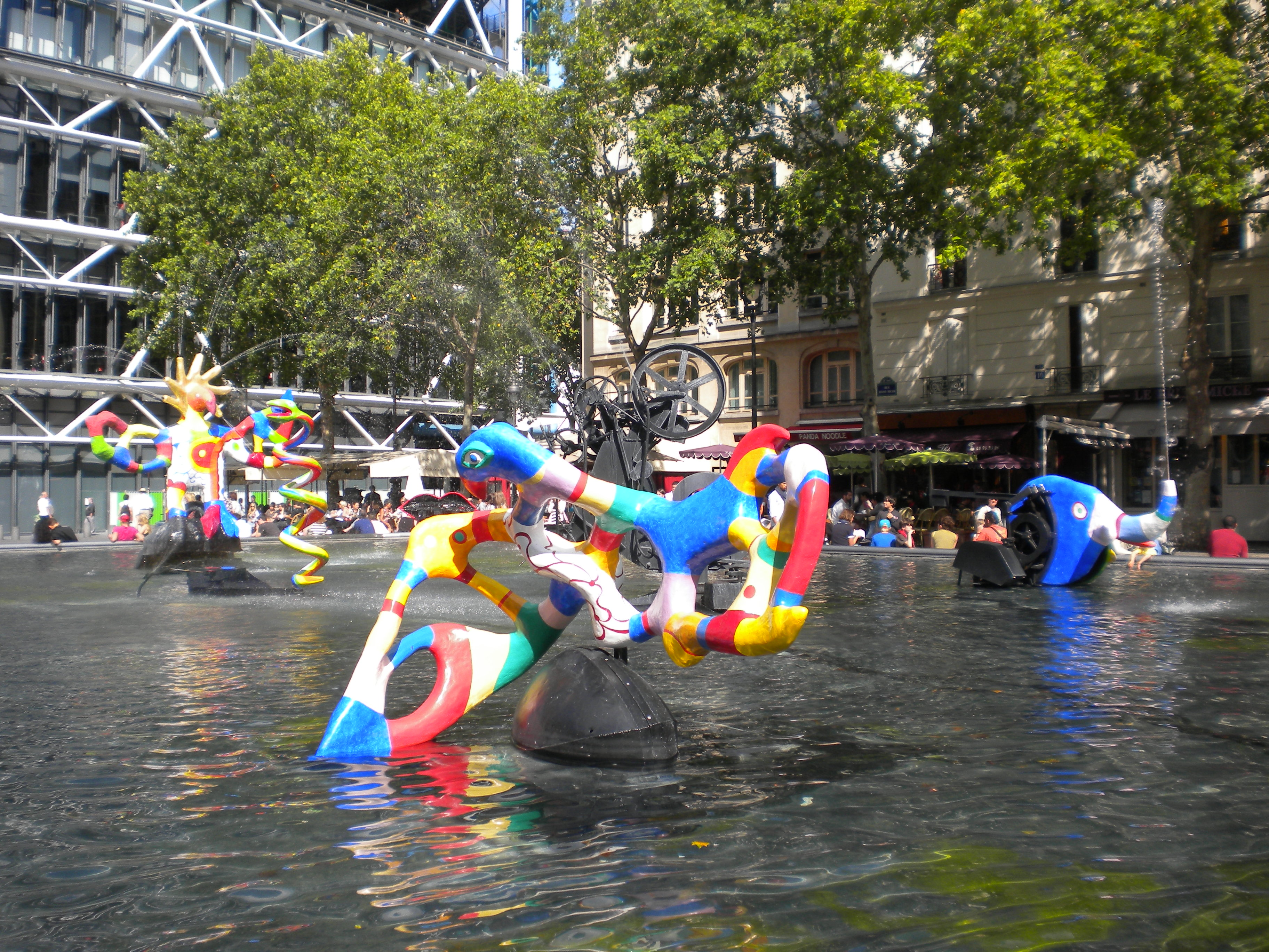 Paris scene